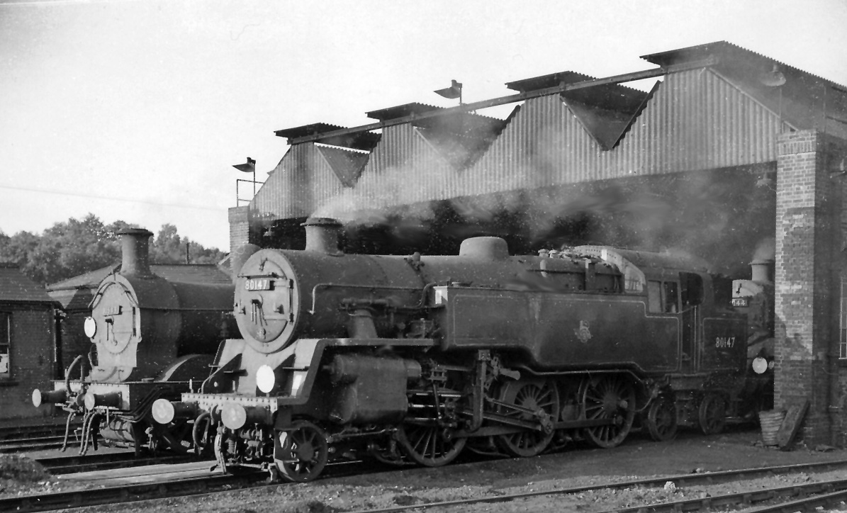 Tunbridge Wells West Shed, with BR 2-6-4T and SE&C 0-4-4T. BR Standard 4MT 2-6-4T No. 80147 (built 11/56, withdrawn 5/65) contrasts with ex-SE&C Wrainwright class H 0-4-4T No. 31543 (built 1/1909, withdrwn 7/63).